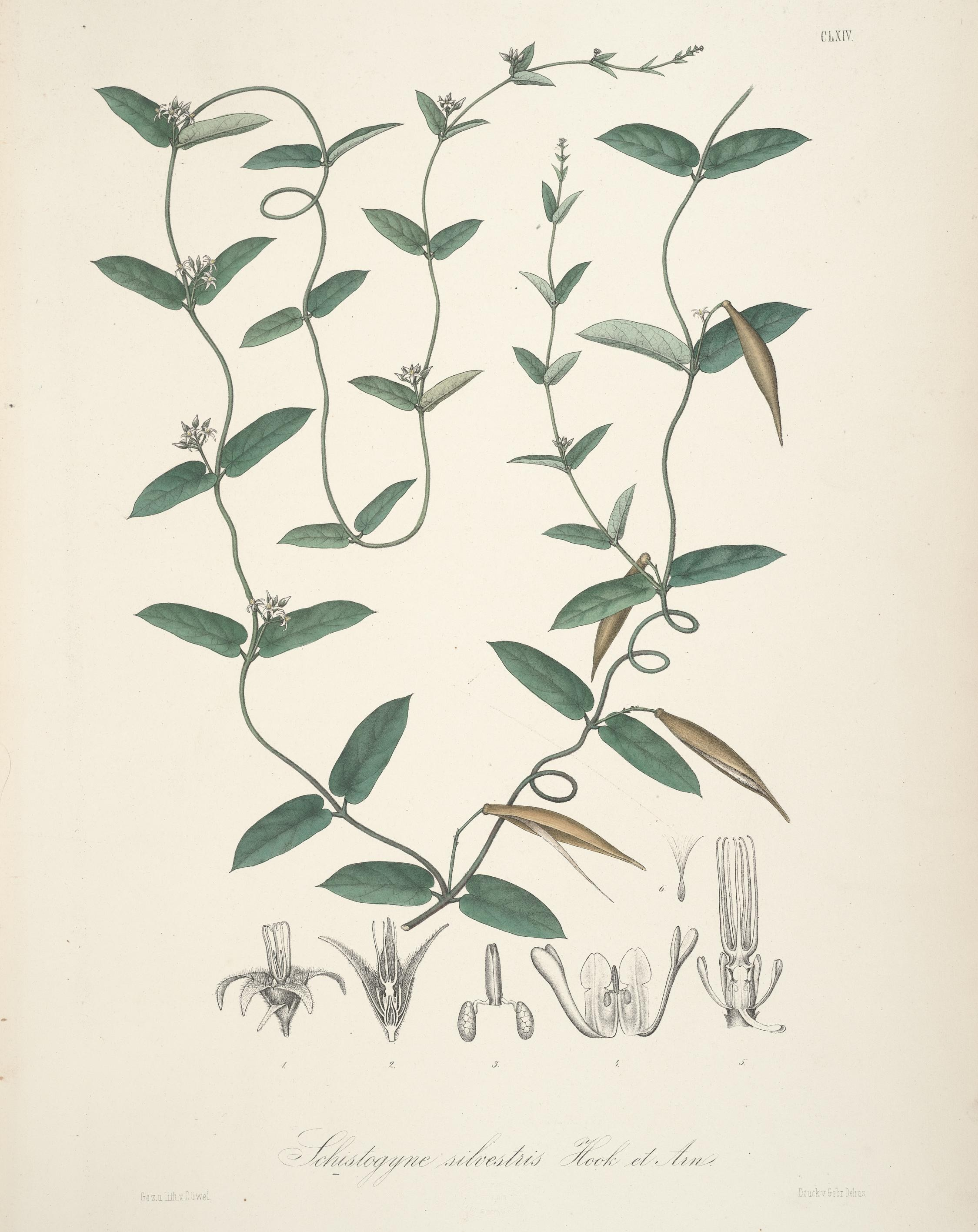 Schistogyne sylvestris, botanical Illustration